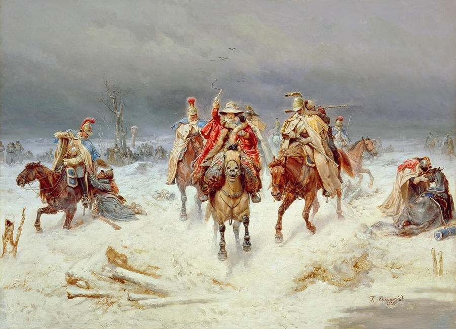 The Patriotic War of 1812 in Russia against Napoleon’s army